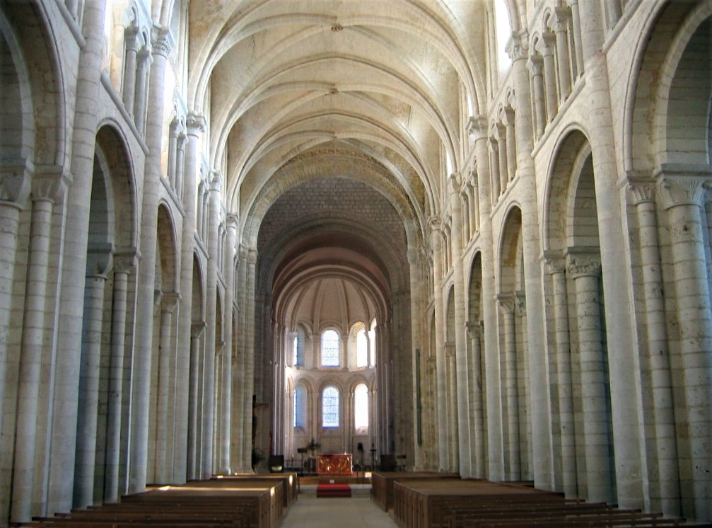 Romanesque nave of the abbeychurch of Saint-Georges-de-Boscherville, Normandy/ , / GFDL